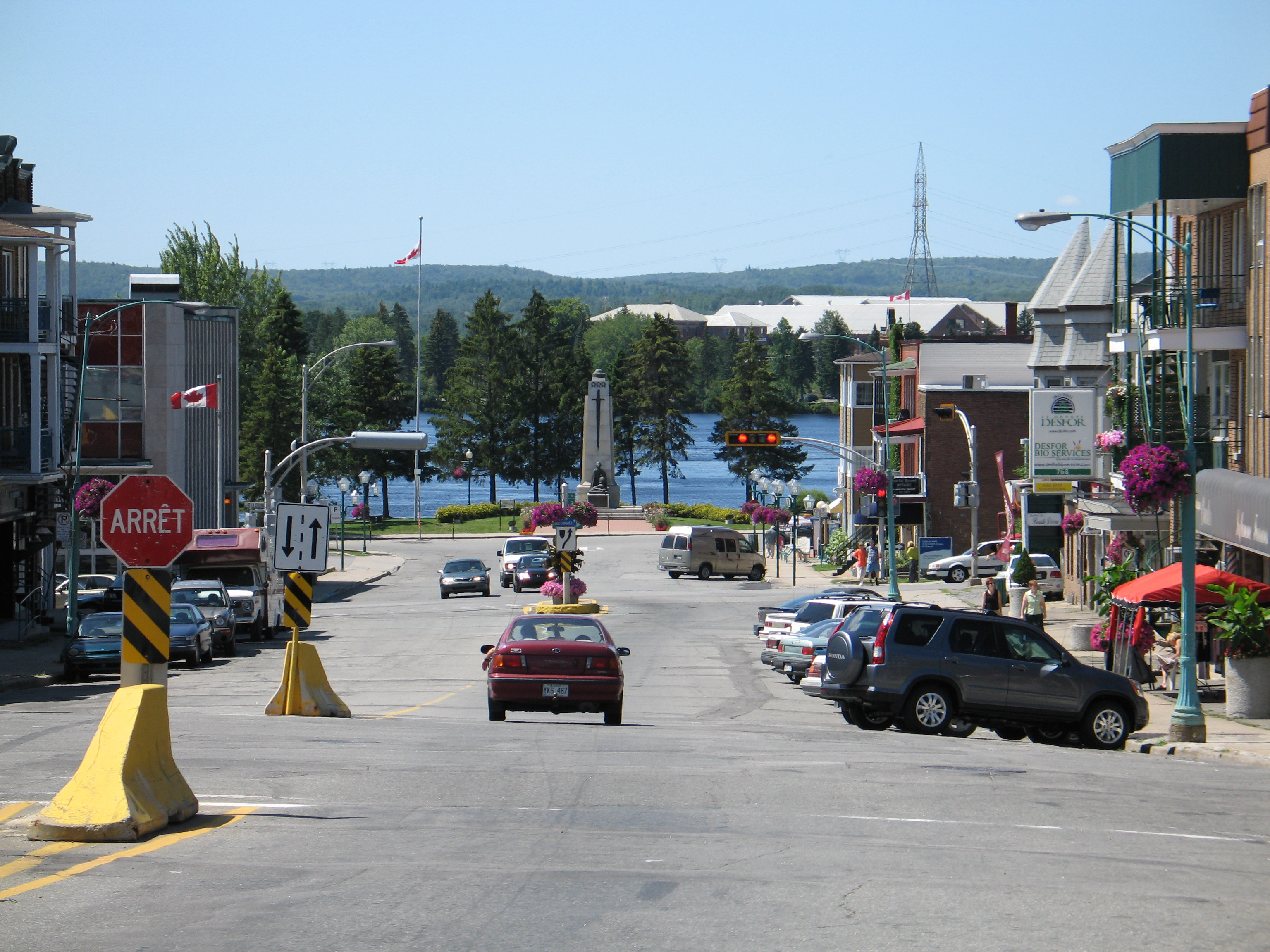 Downtown Shawinigan, Quebec, taken from the corner of Tamarac Avenue and 4th Street